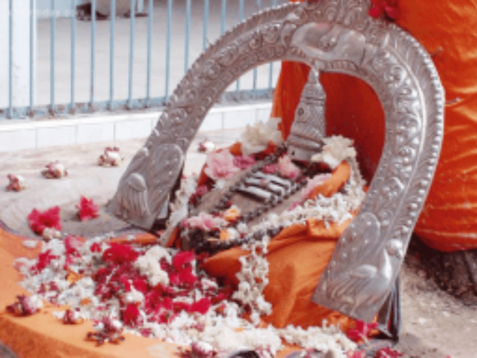 Sadasiva Brahmendra Sama Aadi in Nerur